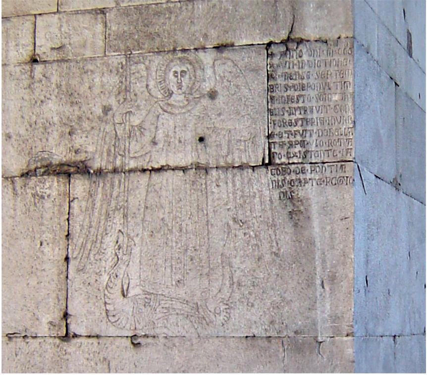 Porta San Sebastiano,Rome, Italy Made by Joris van Rooden, the Netherlands on 03-01-2006